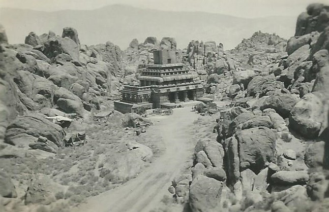 Alabama Hills (Sierra Nevada Mtns), CA Photo taken by Edward D. Sly in 1937 or '38.